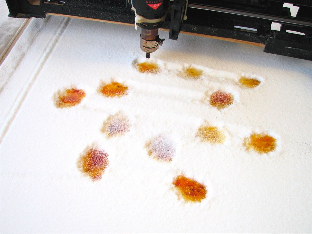 Midpoint in printing a toroidal coil sculpture on the CandyFab 4000, an experimental rapid prototyping machine that can use granulated sugar as the printing medium. This is part of the open-source CandyFab project